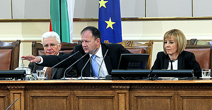 Председател на Народното събрание